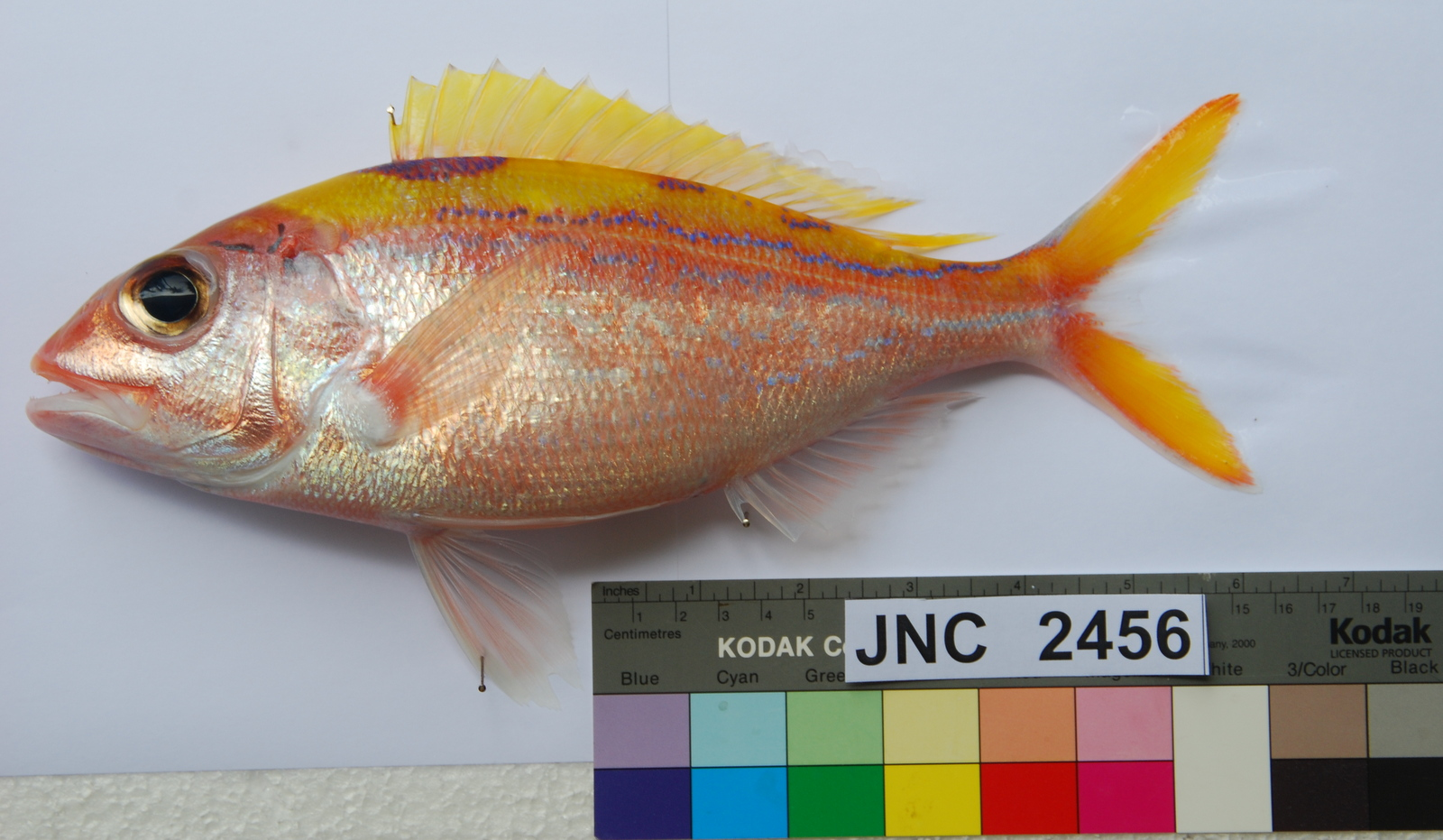 Pristipomoides argyrogrammicus JNC2456. Collected off Nouméa, New Caledonia, deep-sea off the Barrier Reef.